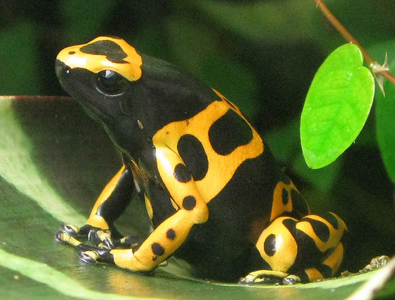 Dendrobates leucomelas on a bromeliad